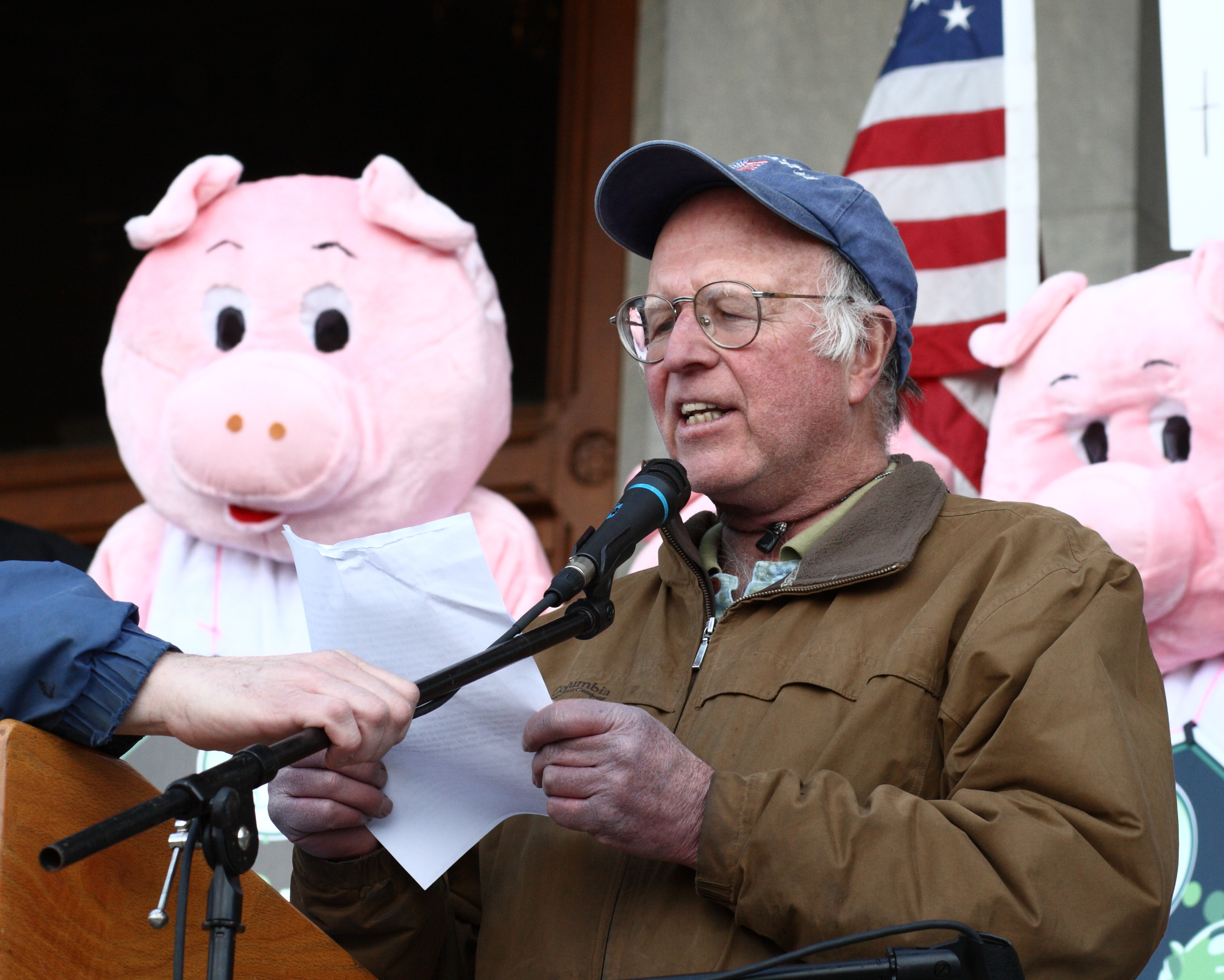 Tea Party protest at the Connecticut State Capitol in Hartford, Connecticut. The protest was scheduled for noon until 2pm local time; the timestamp of the photo is Coordinated Universal Time (UTC). Organizers reported that the police estimate of attendance was 5000 people. - OpenStreetMap(Info)